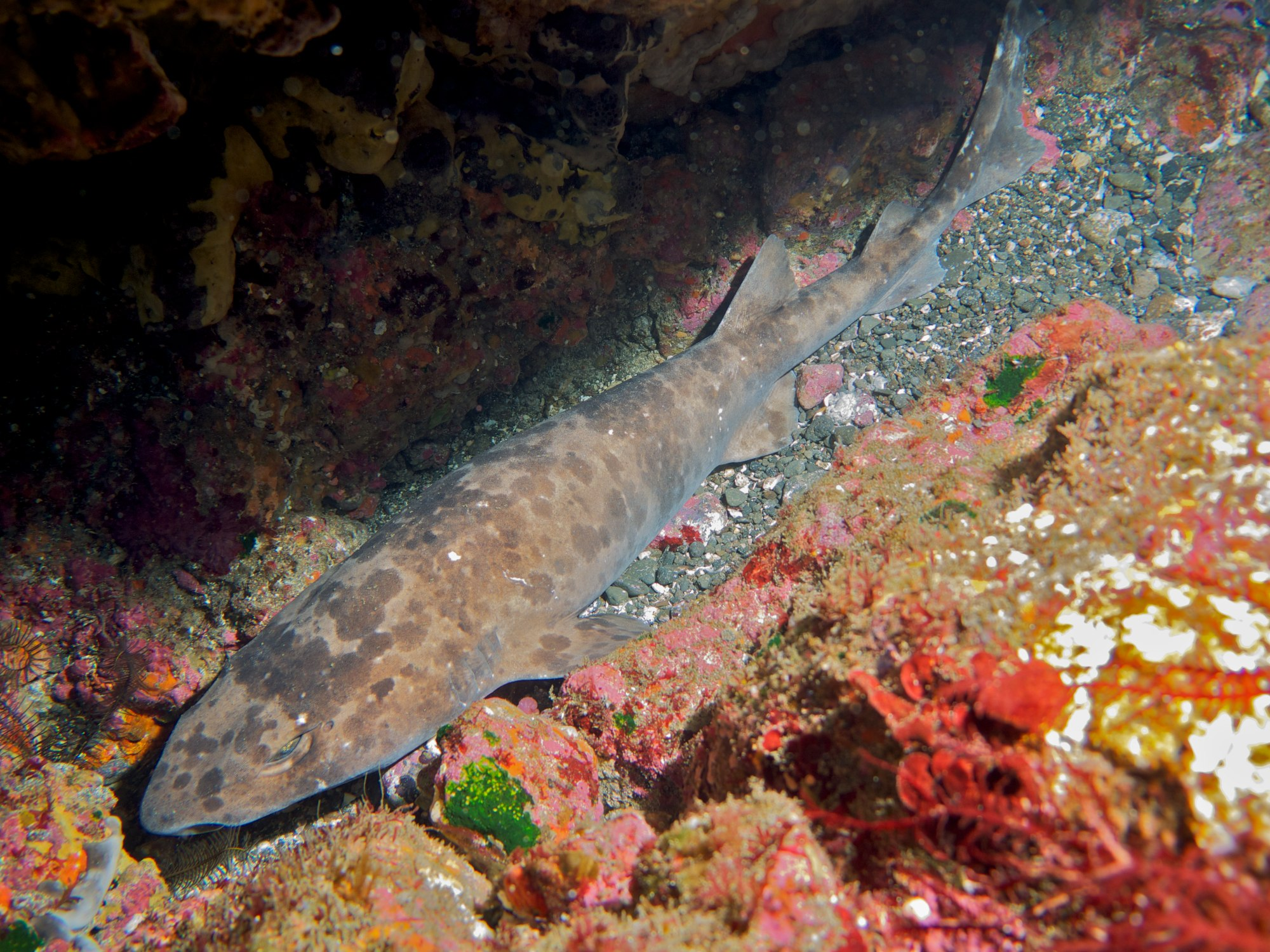 Blotchy swell shark (Cephaloscyllium umbratile)